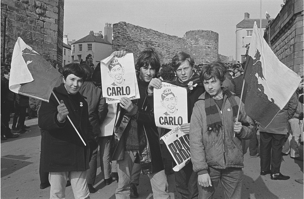 Photographs by Welsh photo journalist Geoff Charles 'Cofia 1282', a protest against the investiture of Prince Charles at Caernarfon Castle in North Wales.